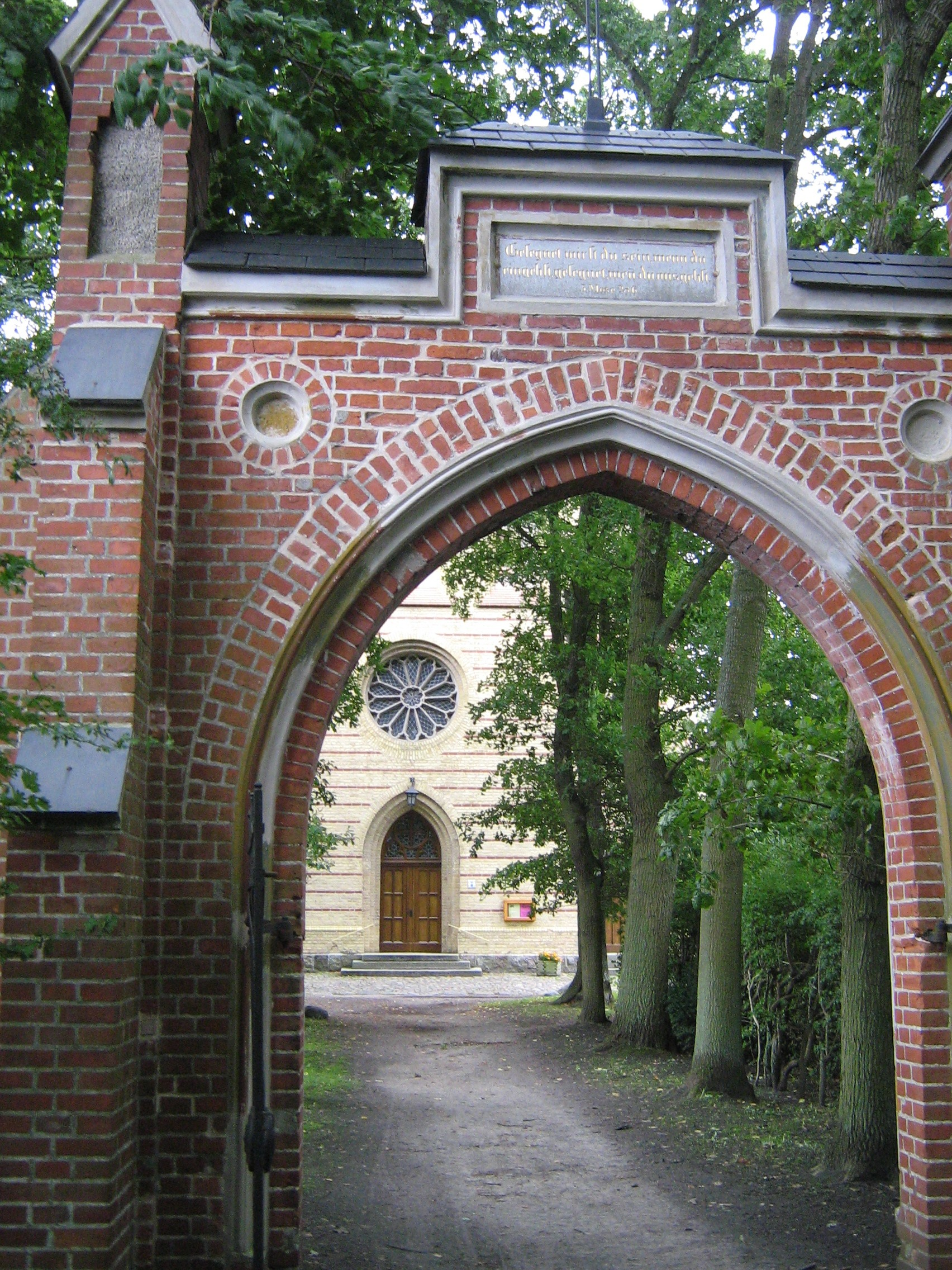 cemetery-gate in Zingst